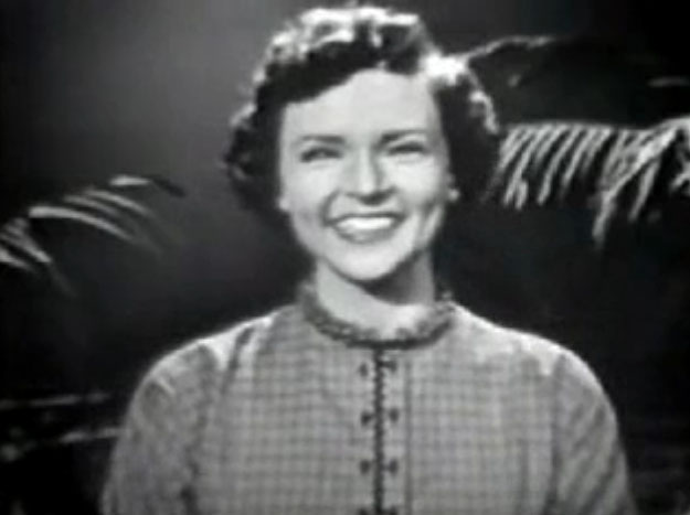 Cropped screenshot of Betty White from the television series Category:Betty White Show.